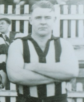 Photo of Keith Milte from 1942-1943